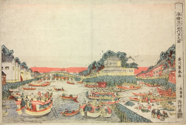 perspective print by Utagawa Toyoharu, title ’Uki-e Fukagawa Eitai suzumi no zu’ (Perspective Picture: A View of Enjoying the Cool near Eitai Bridge, Fukagawa), c. 1770